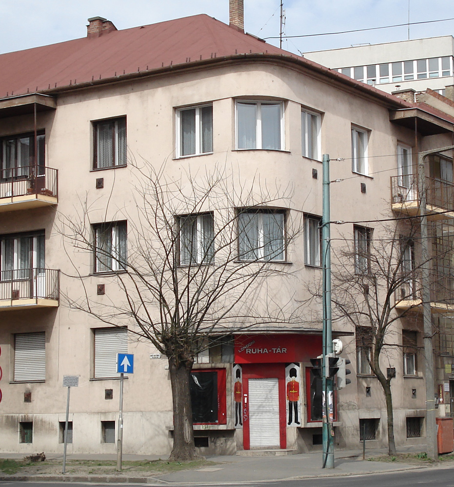 Old Post Office (1794), Miskolc, Hungary